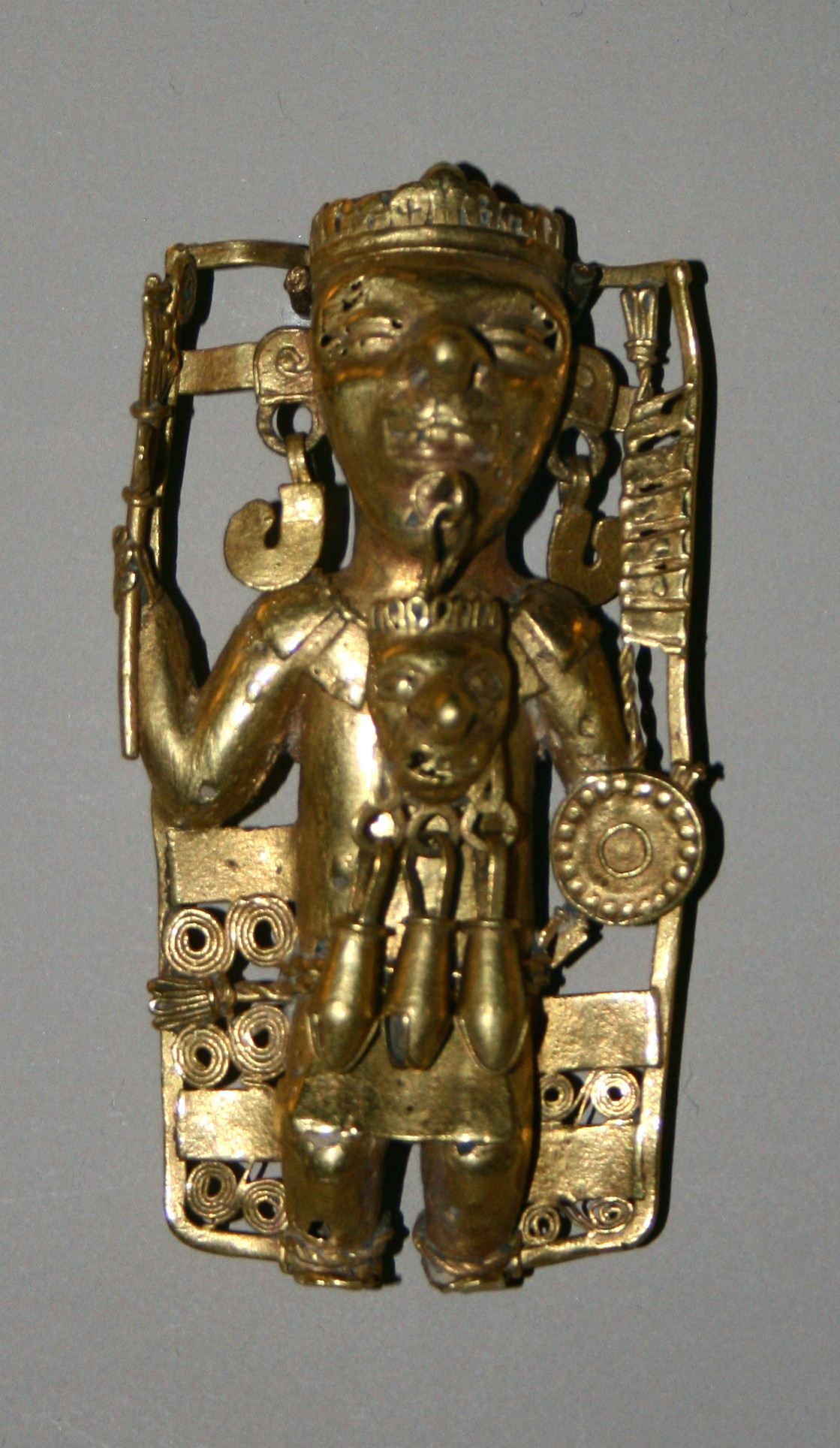 Mixtec gold pendant depicting a ruler. British Museum